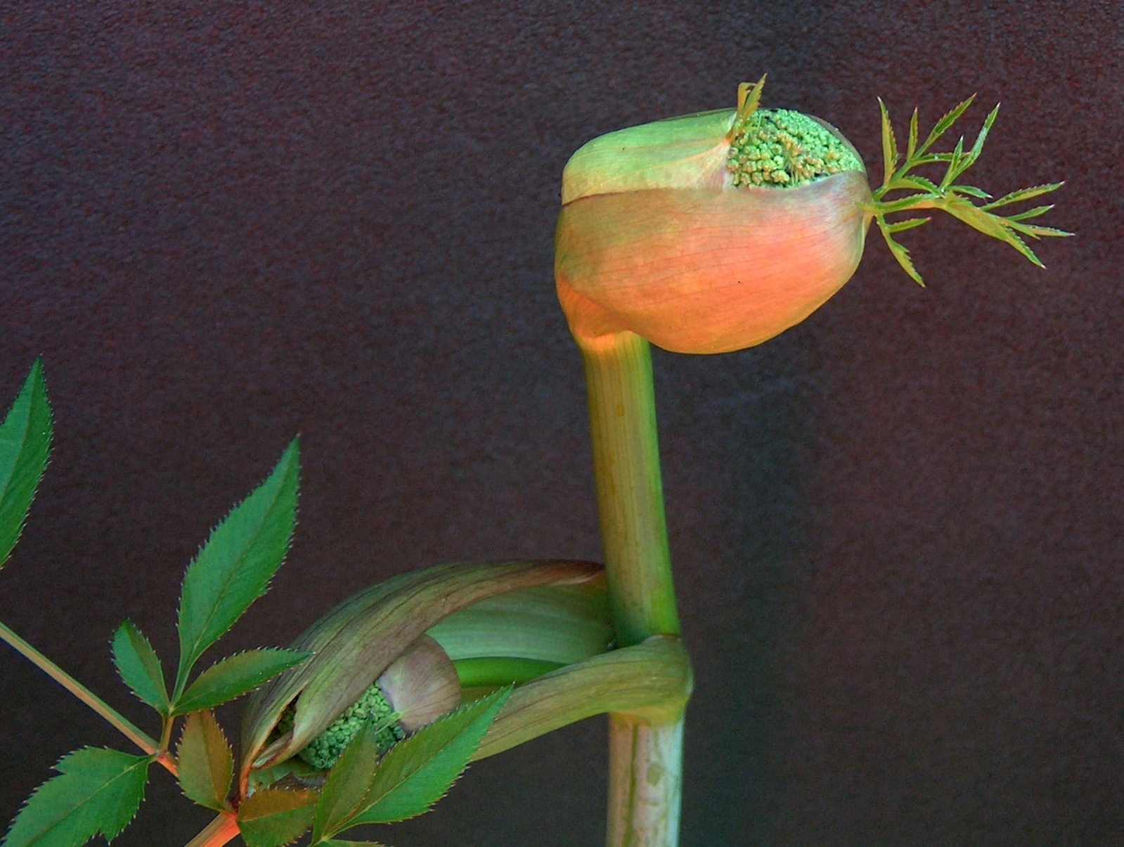 Flower buds of Wild Angelica or Woodland Angelica (Angelica sylvestris) in Kerava, Finland